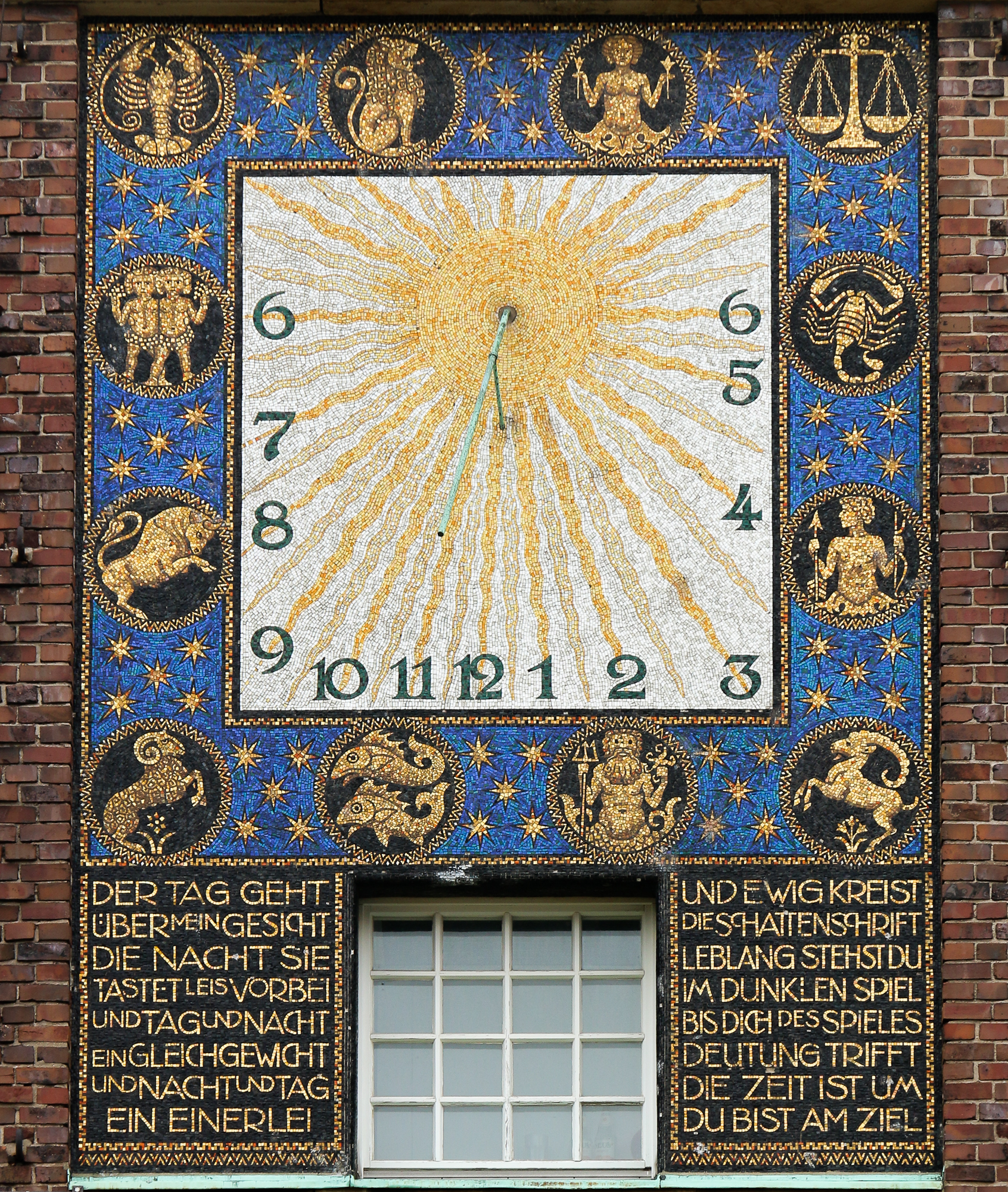 Sun dail on the Wedding Tower (Hochzeitsturm), Mathildenhöhe, Darmstadt, Germany